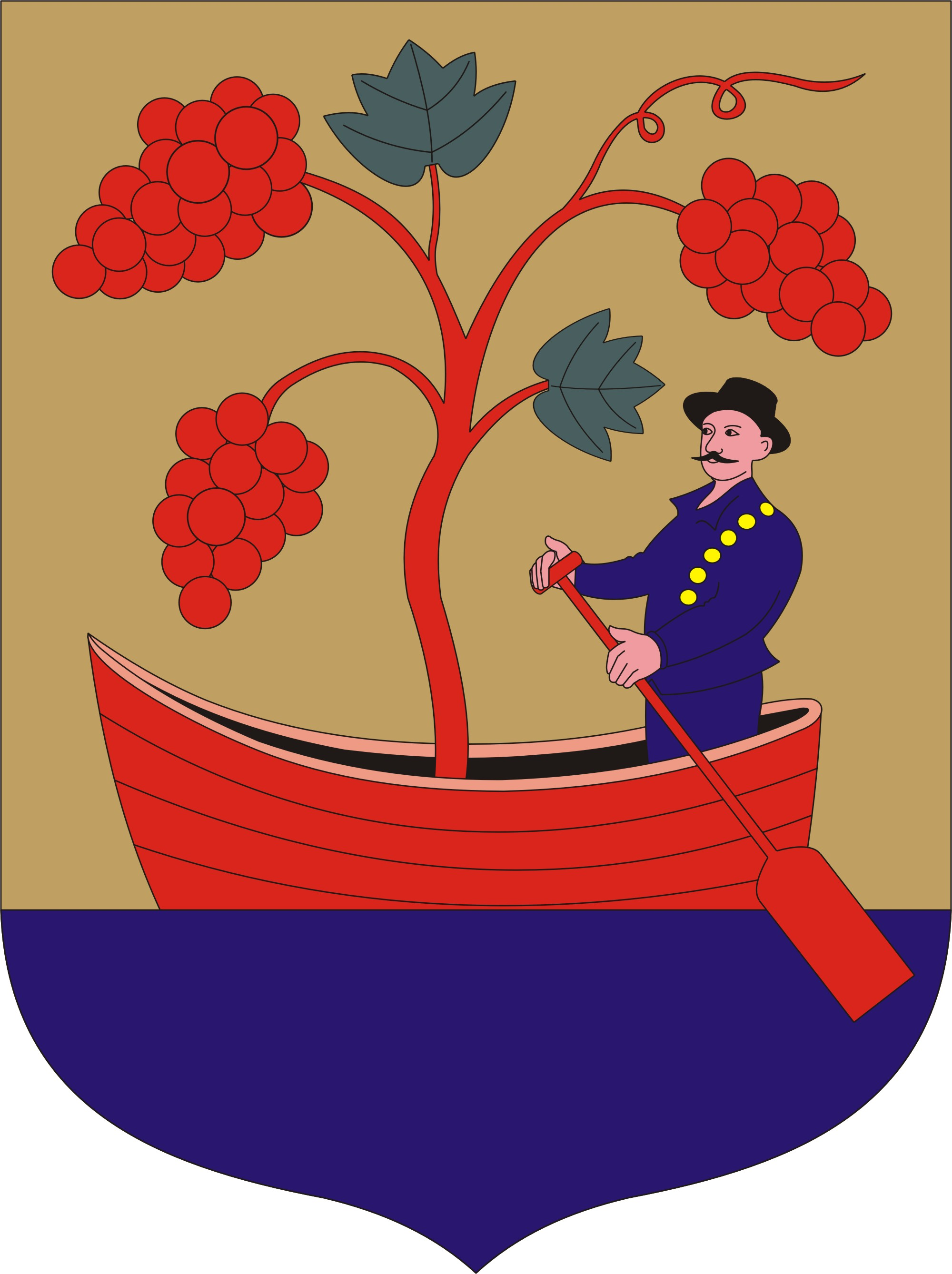 Coat of arms of Révfülöp, Hungary